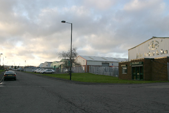 Westway Industrial Park. Not all squares can be interesting!!